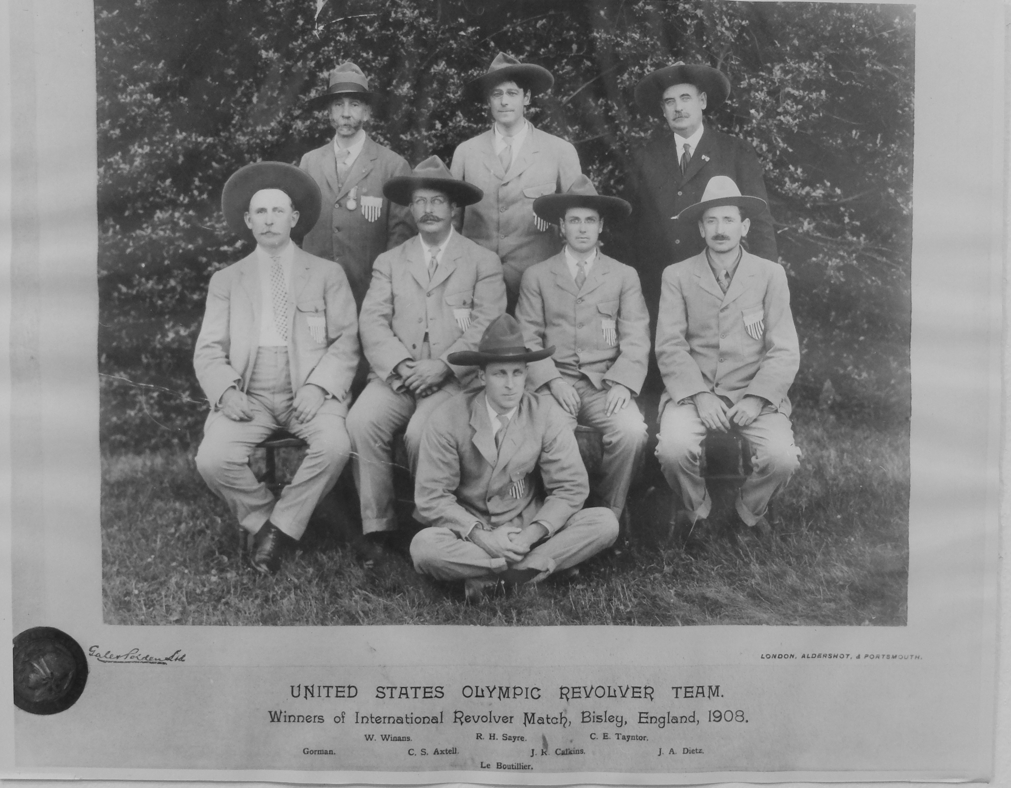 Winners of the international revolver match, Bisley, England in 1908. (Top row) W. Winans, R.H. Sayre, C.E. Tayntor (Middle row) Gorman, C.S. Axtell, J.R. Calkins and J.A. Dietz (On ground) Thomas LeBoutillier 2d.